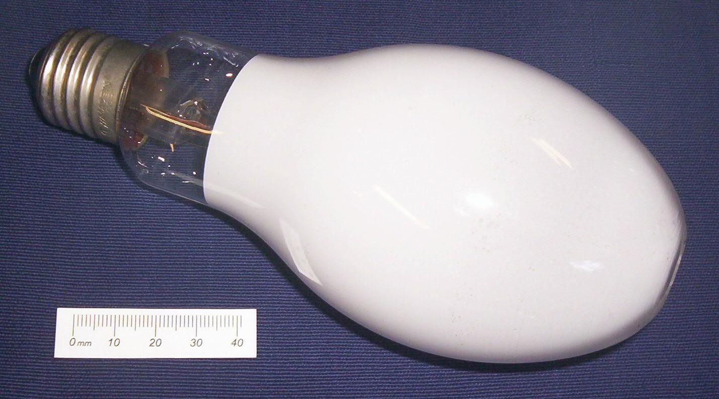 mercury HID lamp 80 Watt